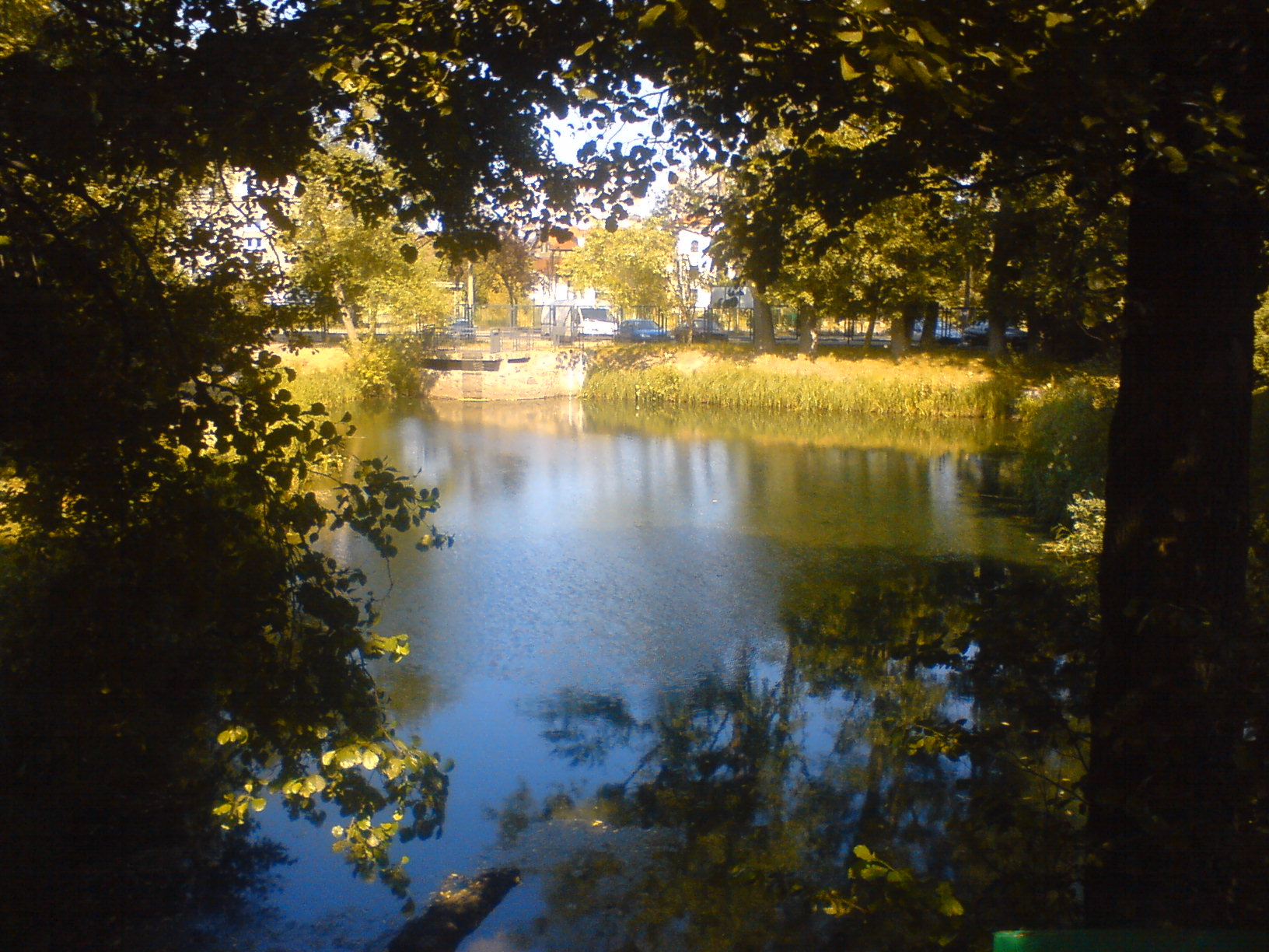 Staw Karlikowski, Potok Karlikowski.